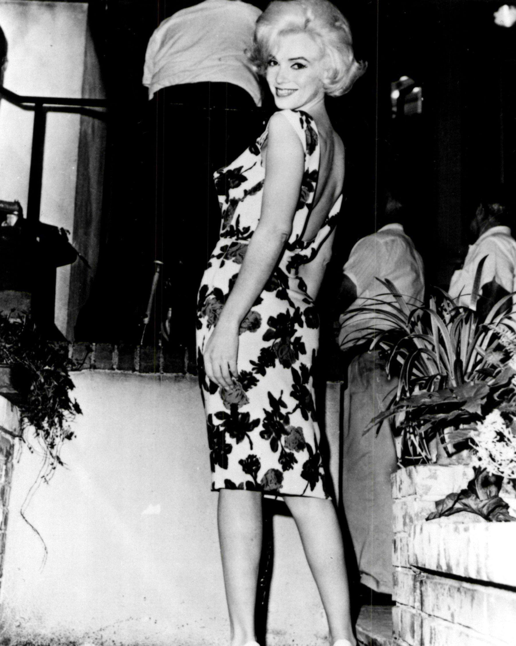 Marilyn Monroe on the set of Something's Got to Give in 1962 from the August 7, 1962 issue of Eureka Humboldt Standard page 3. Note this is a larger, better quality uncropped copy of the photo seen on page 3 of the Eureka Humboldt Standard . A search for renewal at turned up no listings using the newspaper's title. There's no evidence of continuing copyright for the newspaper. Copyright not renewed